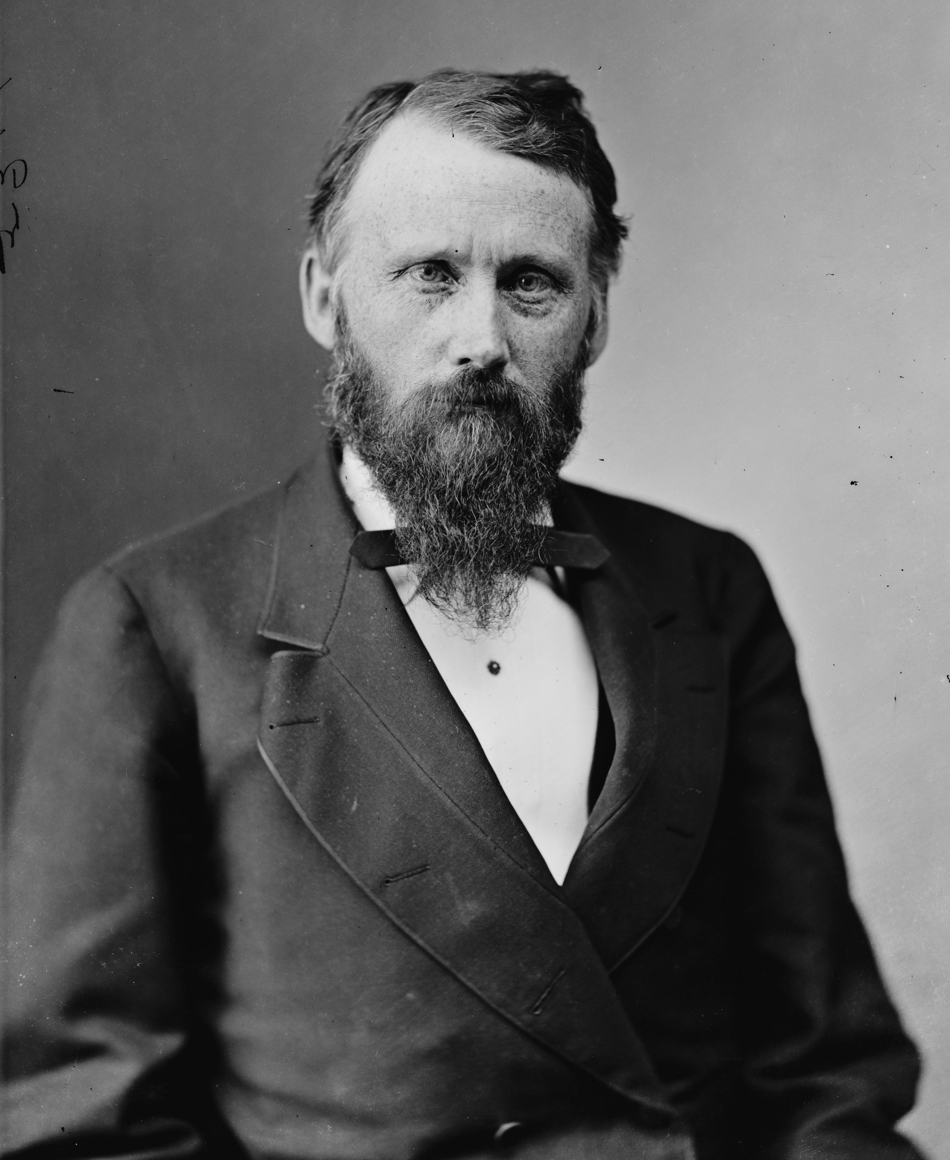 Ellis Spear. Library of Congress description: "Spear, General Ellis (not in uniform)".